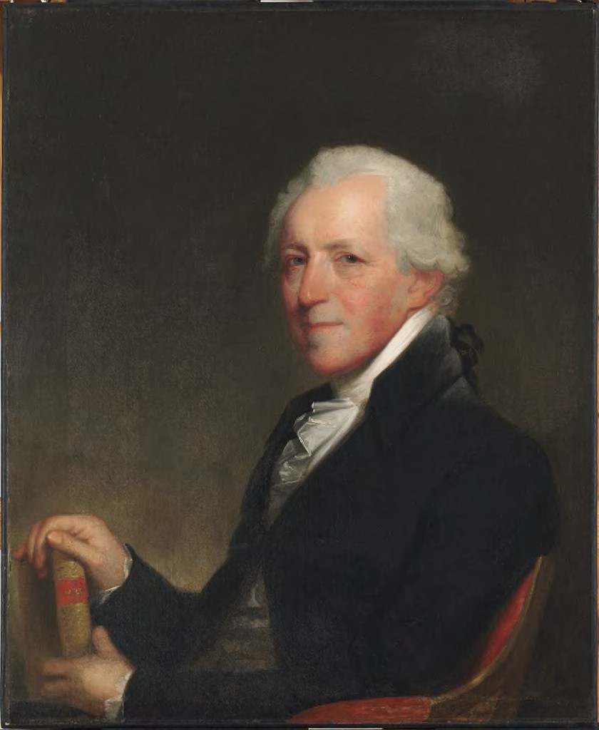 Samuel Eliot (banker)